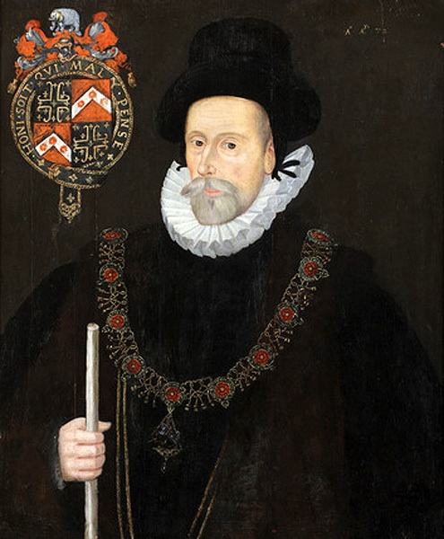 Portrait of Sir Francis Knollys